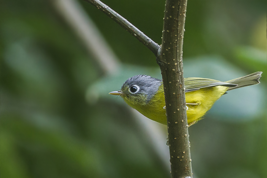 The species White-spectacled Warbler had been photographed during the birding tour of GoingWild from Khangchendzonga National Park in West Sikkim, Sikkim, India on 28.10.2015.